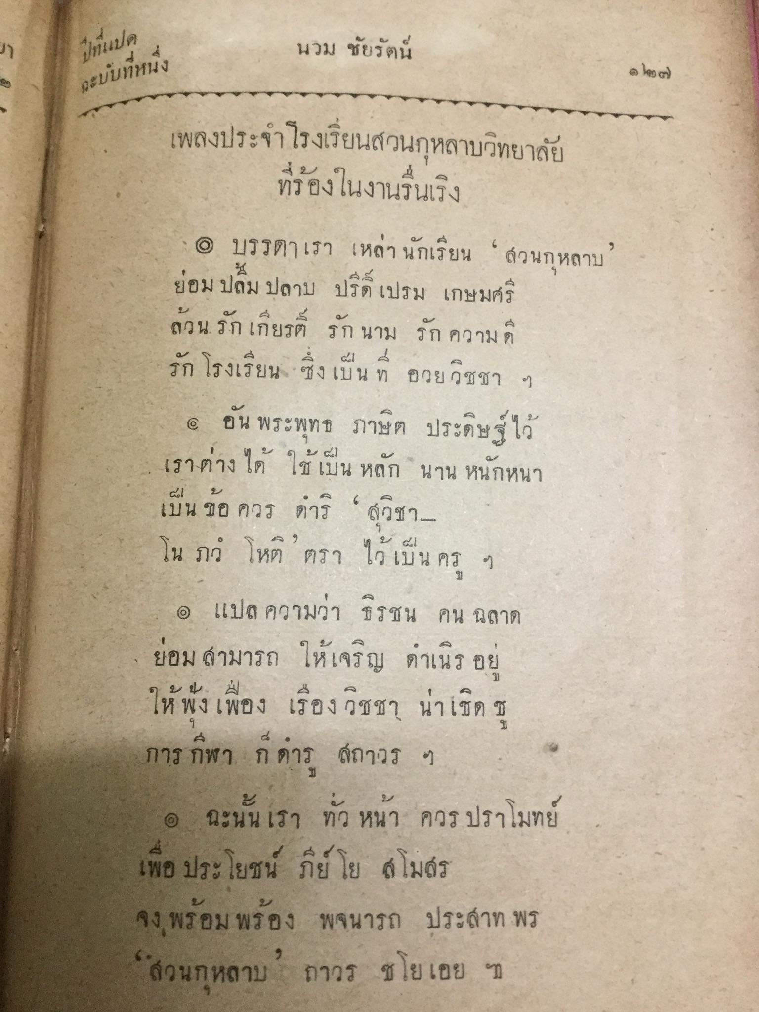 A school song lyrics of Suankularb Wittayalai School in Bangkok, Thailand.